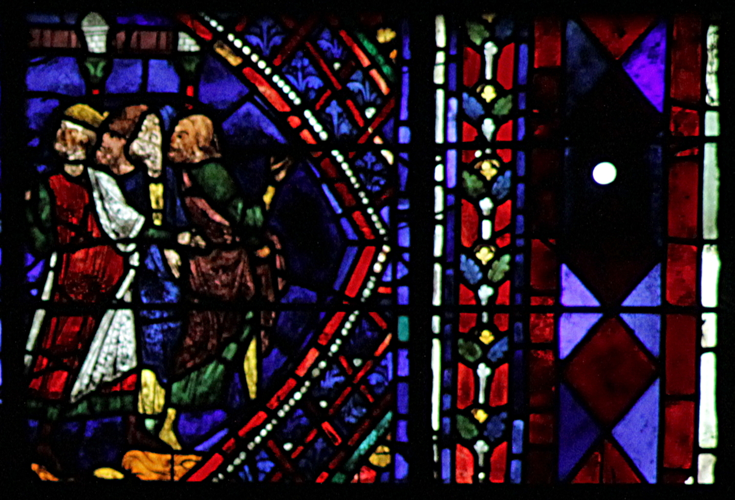 Fragment of File:Chartres 36 -Corrected.jpg - the hole in the border.